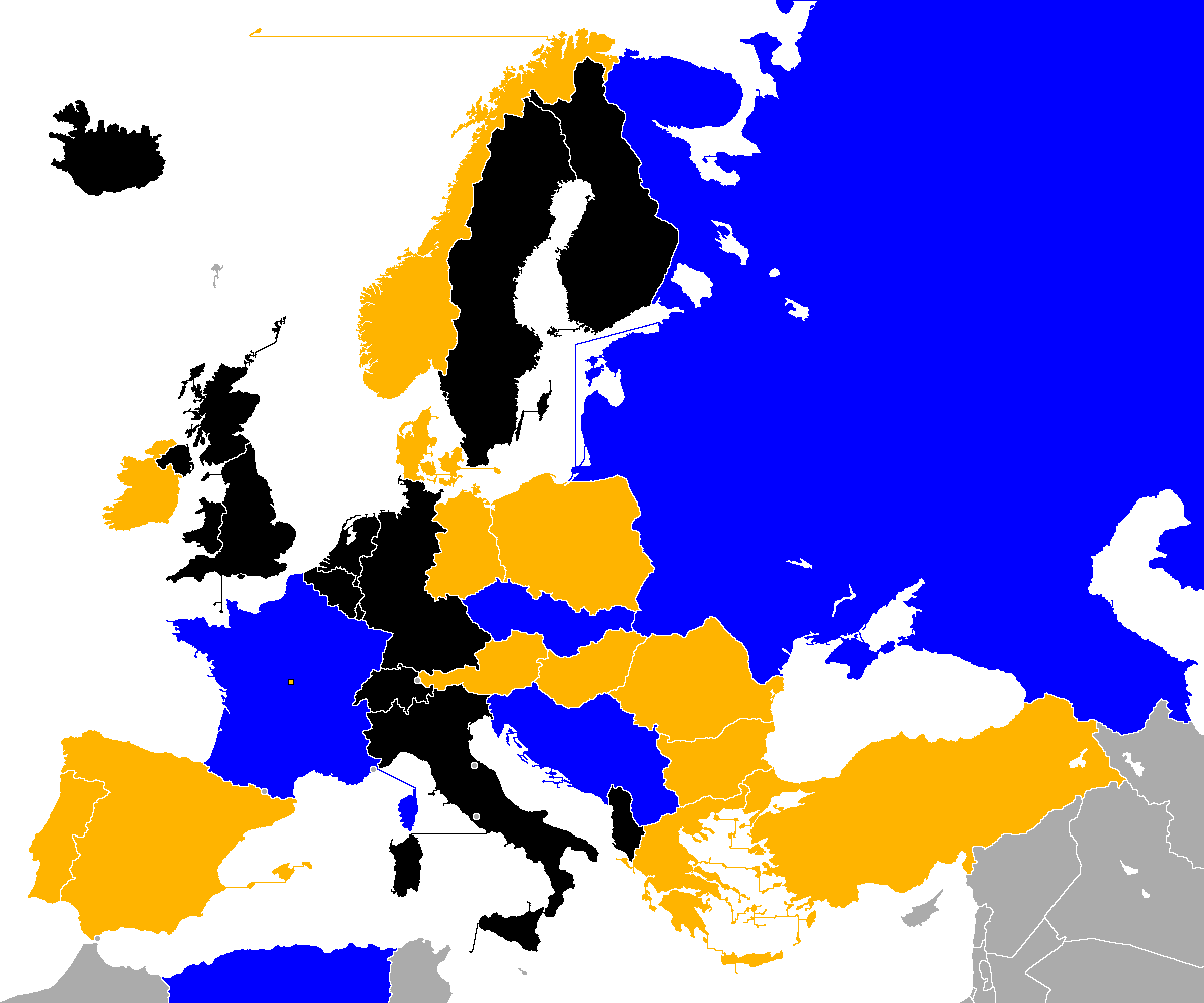 Euro 1960 qualifiers